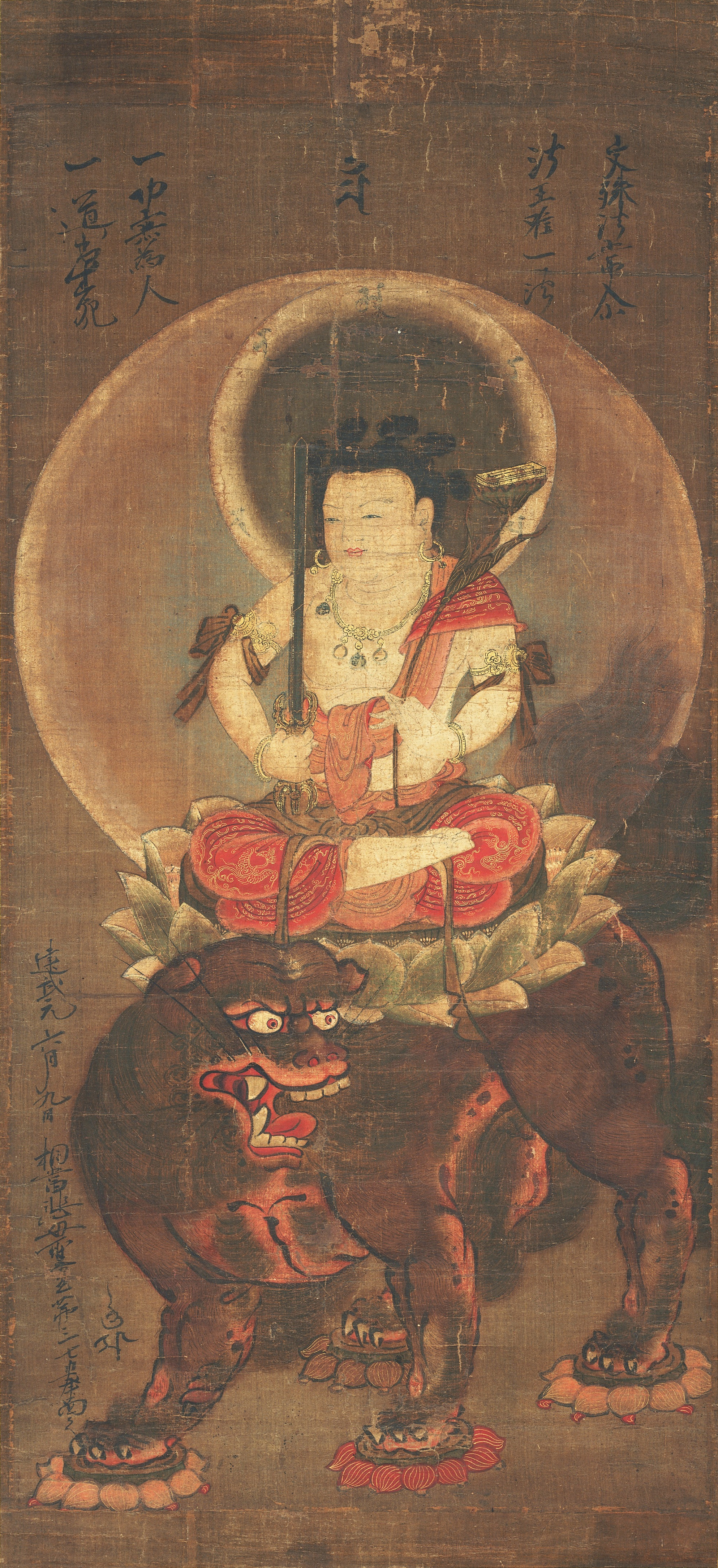 Five-Letter Monju, Nara National Museum, Japan